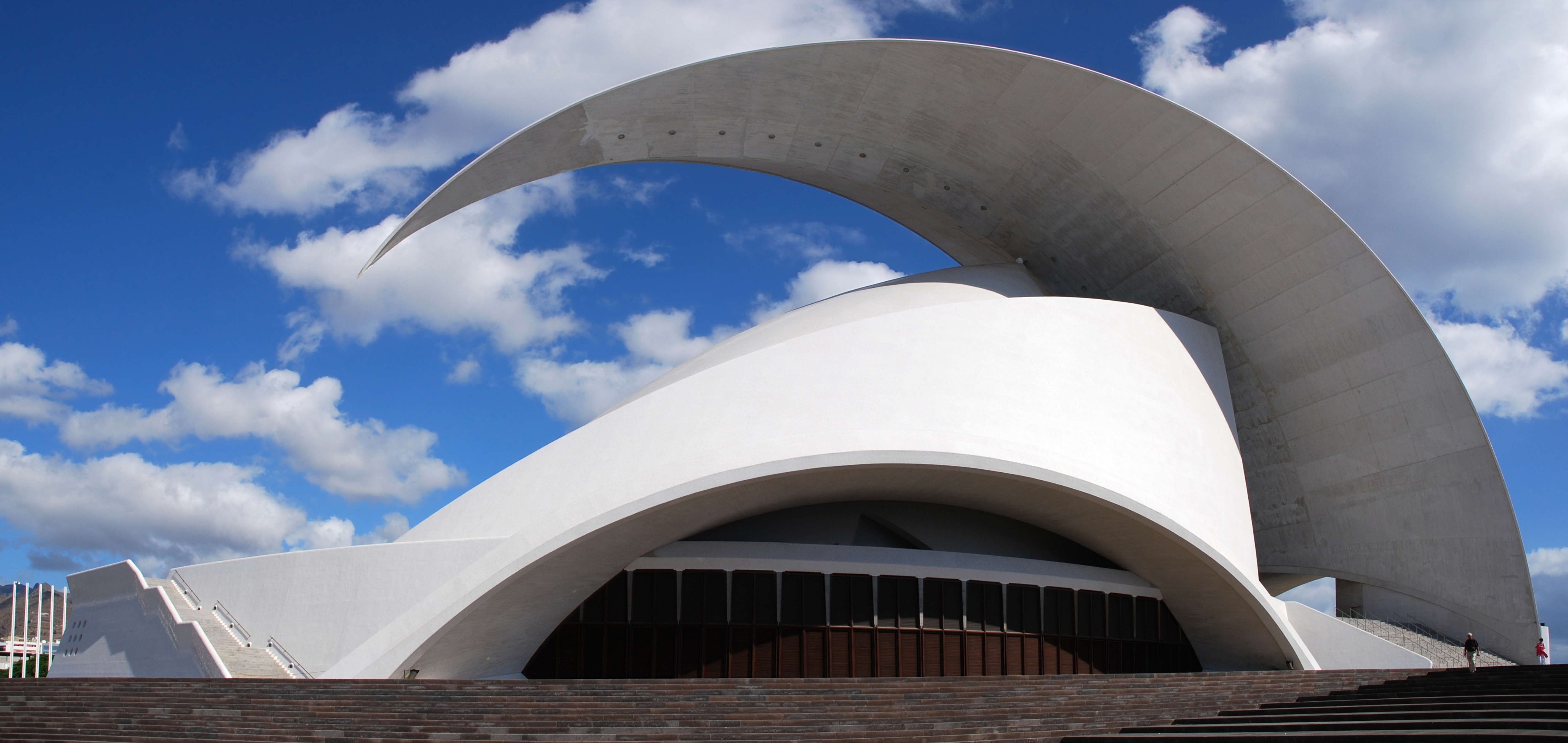 The Auditorio de Tenerife in Santa Cruz de Tenerife, Spain. By the architect Santiago Calatrava.